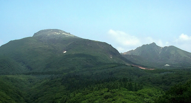 Mount Nasu as seen from the southwest. Mount Chausu (left) and Mount Asahi (right).